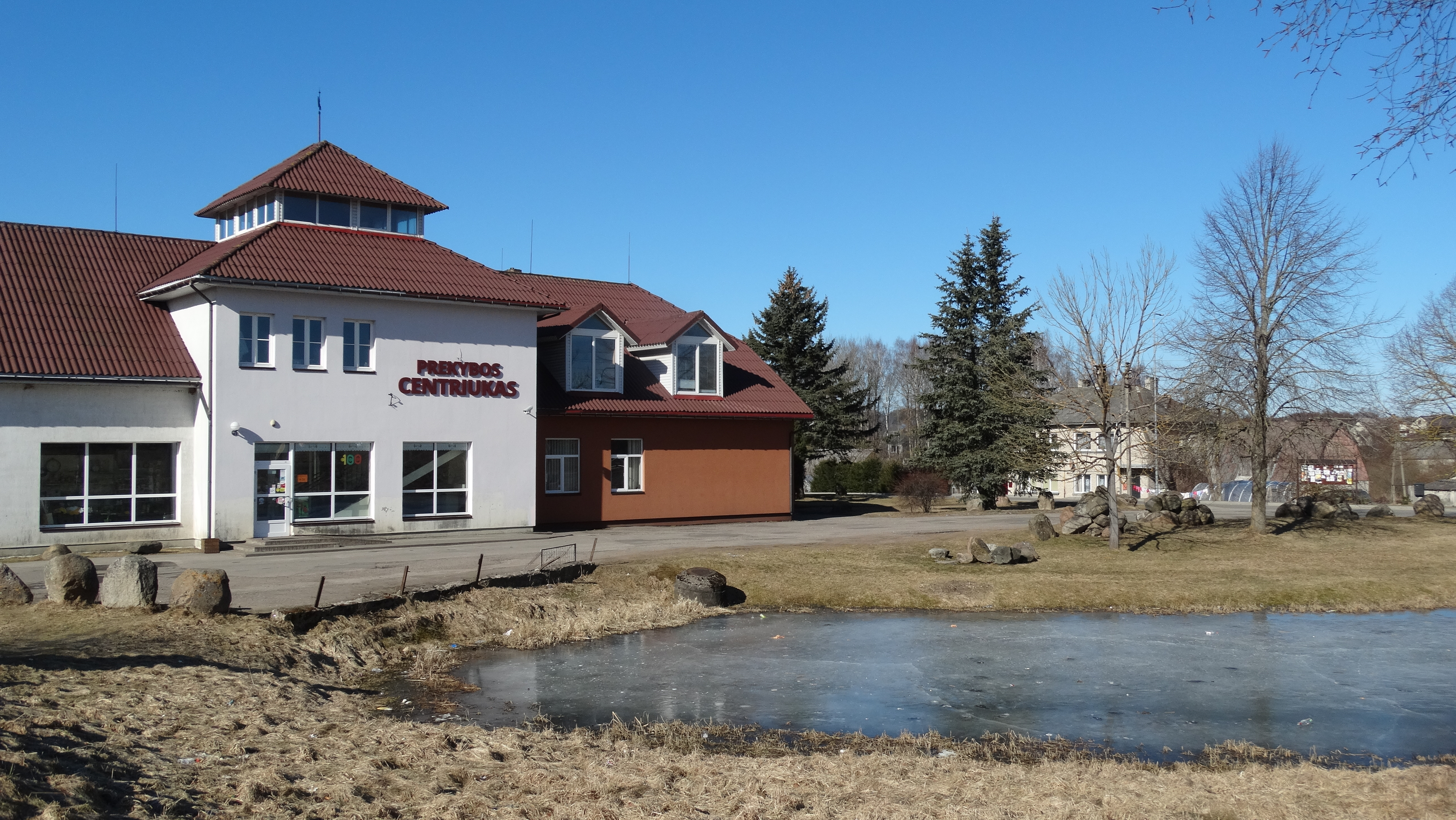 Ryškėnai, Telšiai district, Lithuania